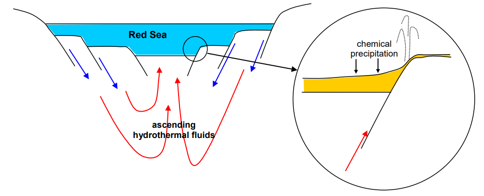 Sedex